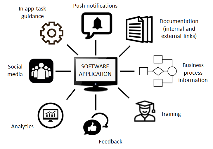 Typical components of a digital adoption platform